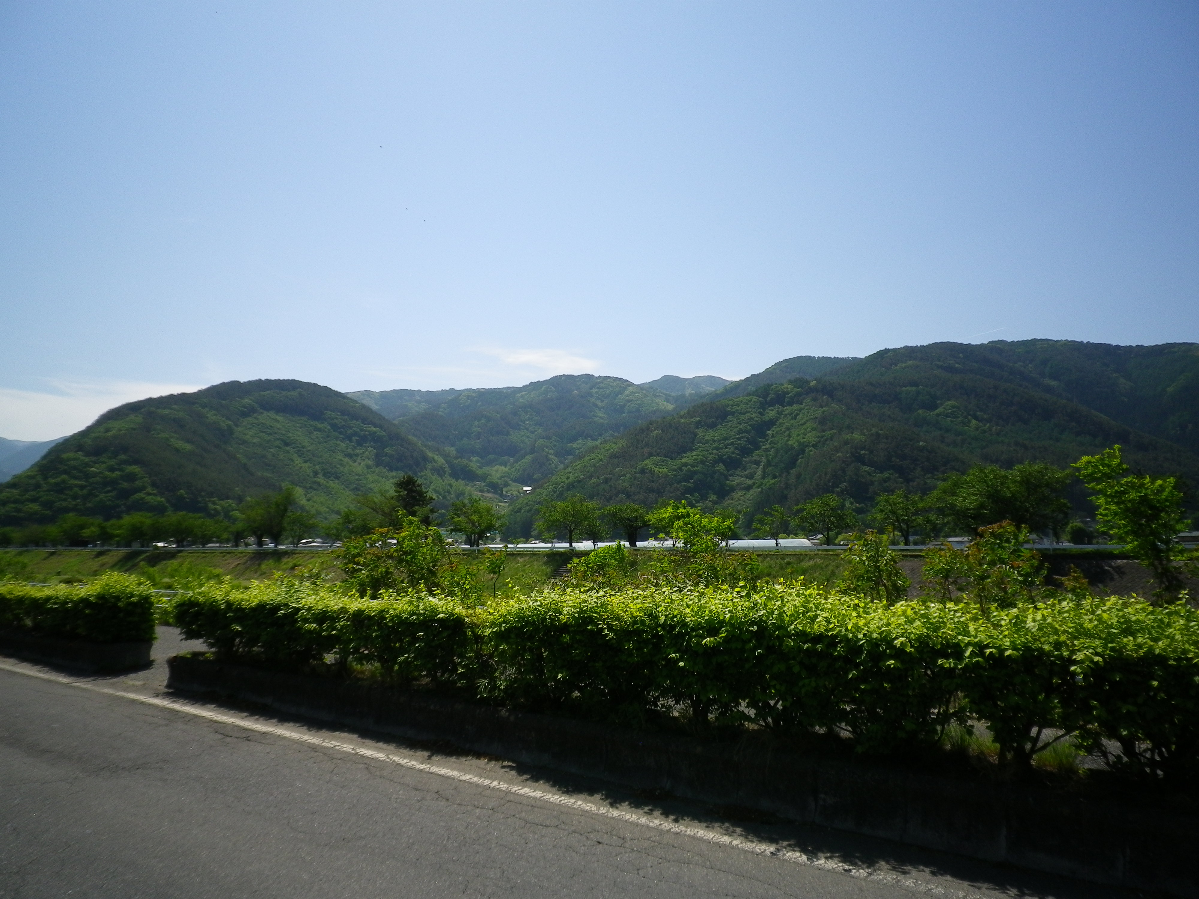 Mount Hayashijo in Satoyamabe, Matsumoto City, Nagano Prefecture, Japan